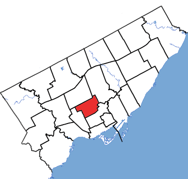 Toronto-St Pauls in relation to the other Toronto ridings (2015 boundaries)